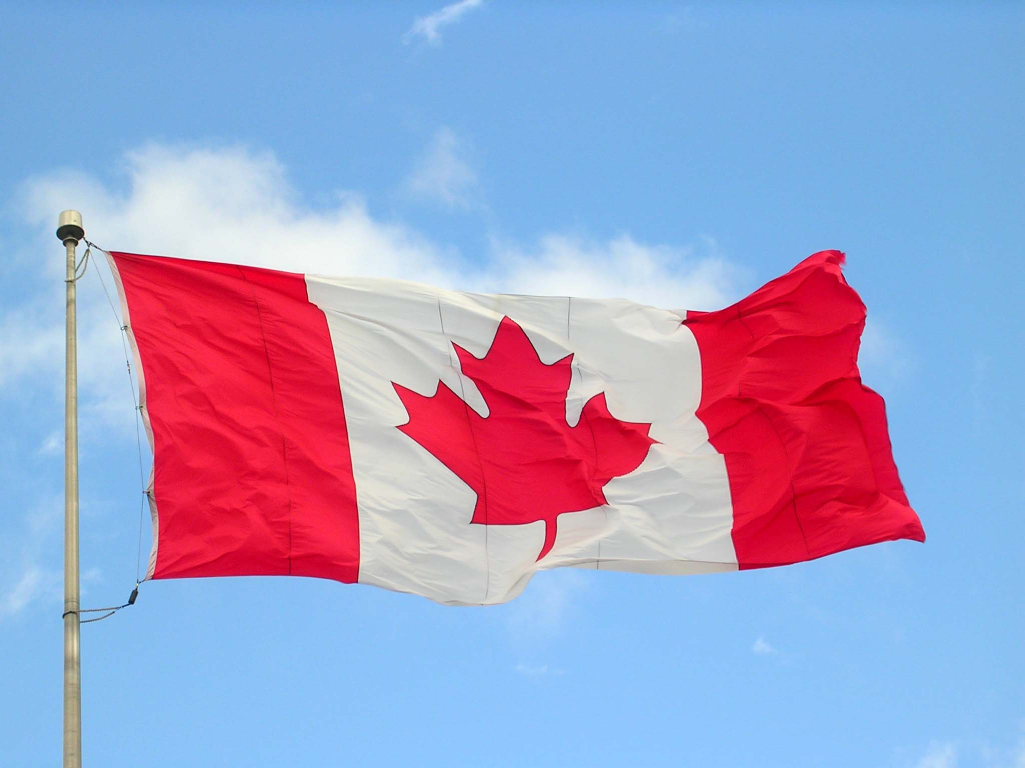 Canadian flag outside the Maritime Museum of the Atlantic on September 4th, 2004 at approximately 16:43:08 (AST)